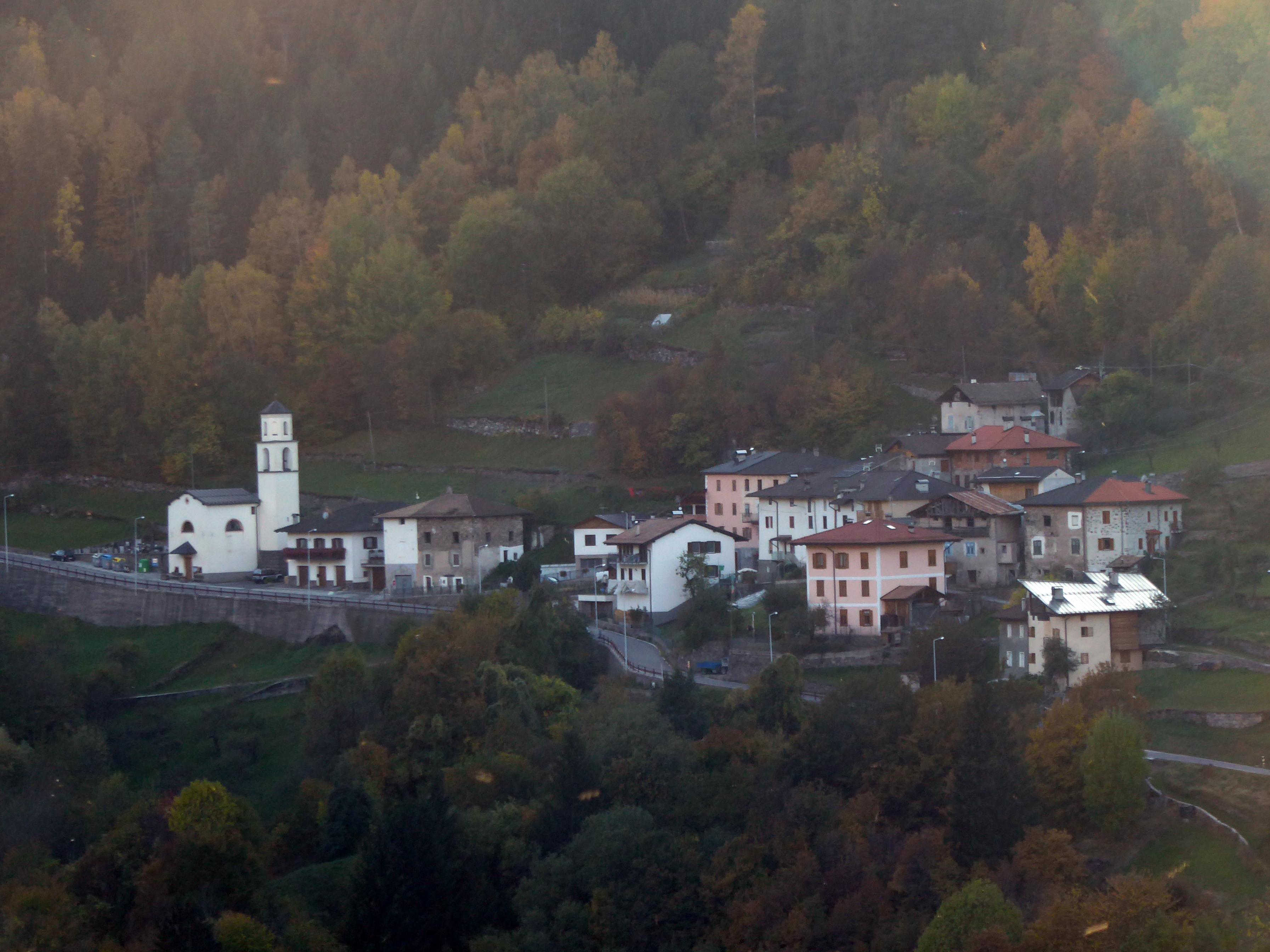 Valcava (Segonzano) as seen from Facendi (Sover), Trentino, Italy